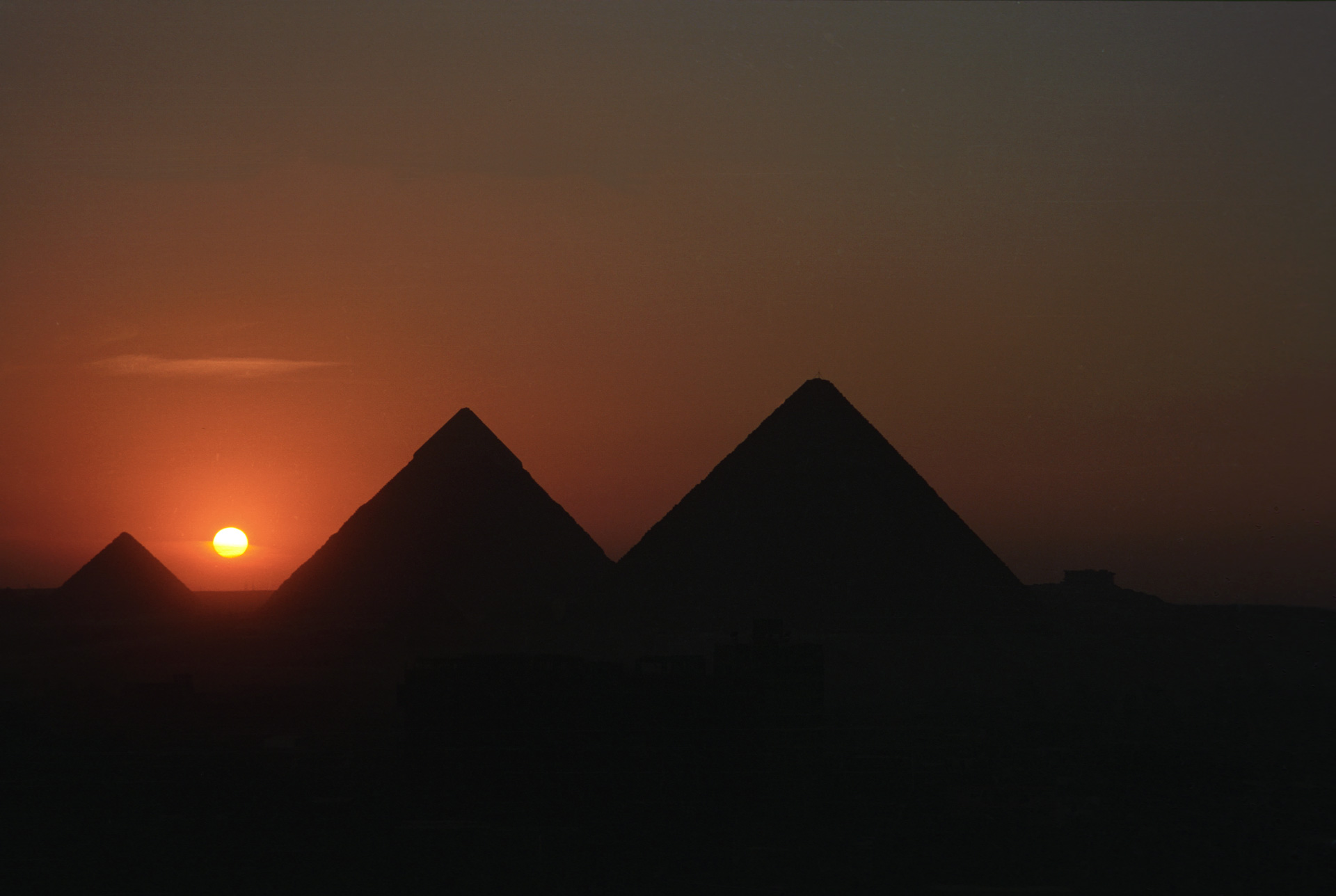 Great Pyramid of Giza